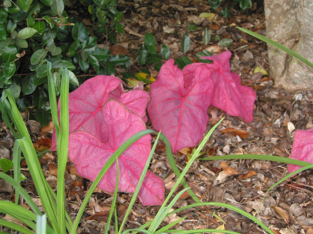 Caldium Fannie Munson